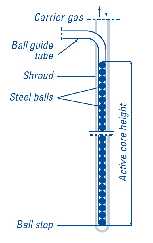 aeroball system for measuring neutron flux in Areva EPR